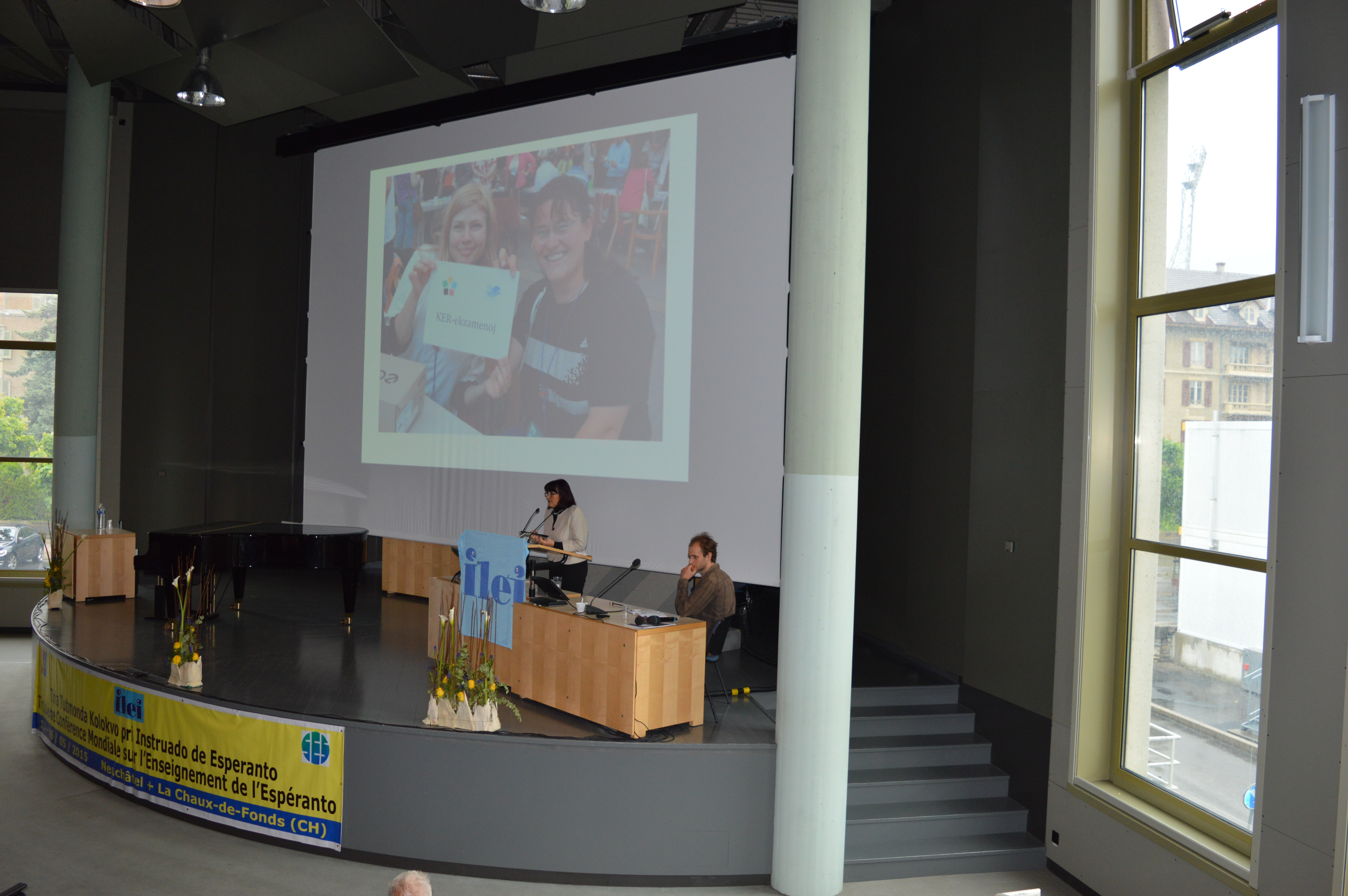 Katalin Kováts speaks during the third international conference on Esperanto teachting, canton of Neuchatel, SwitzerlandEsperanto: Katalin Kováts dum la tria konferenco pri Esperanto-instruado, Neŭŝatelo, Svislando